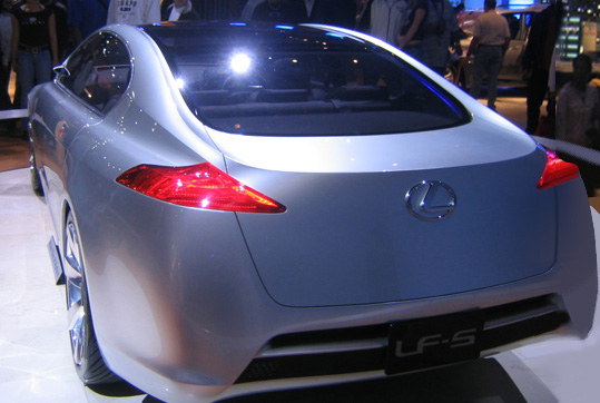 LF-S rear fascia.